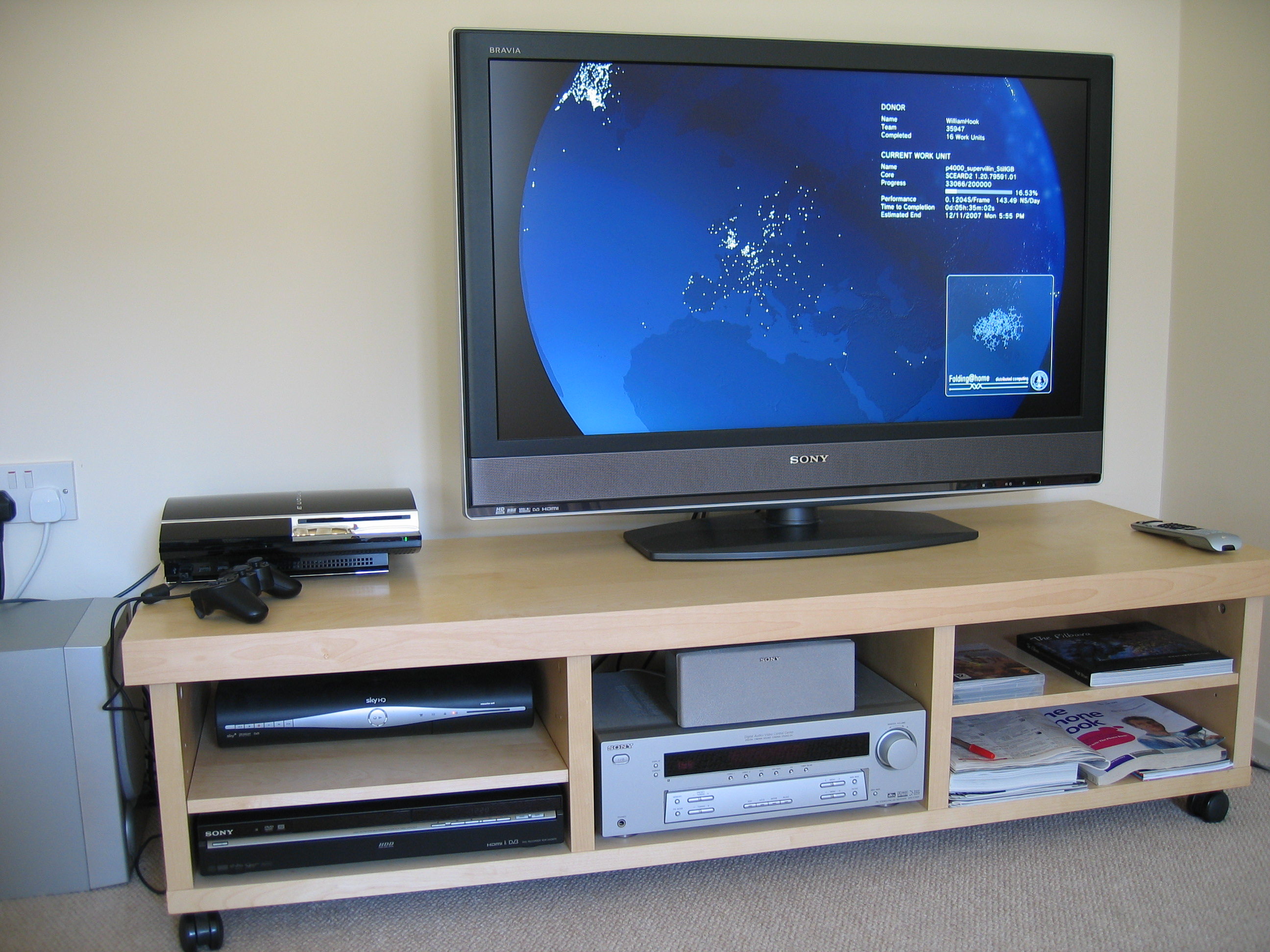 Home cinema setup Sony KDL-40W2000 LCD TV. Full HD, 1080p, intergrated DVB-T and analogue tuners